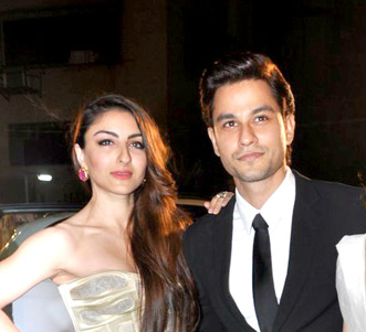 Kunal Khemu(right) with Soha Ali Khan